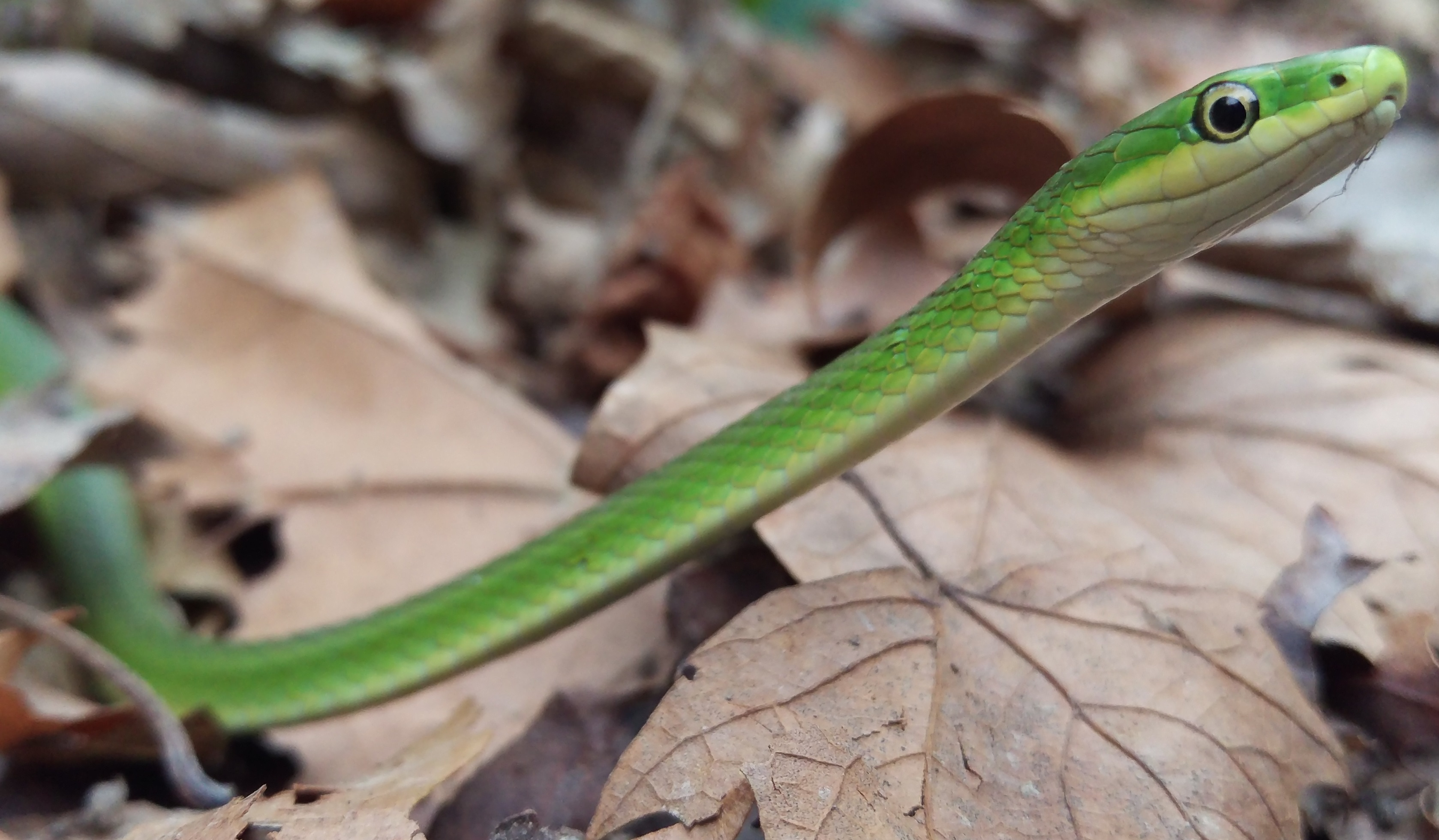 Opheodrys aestivus - rough green snake, image cropped (un-cropped also available)